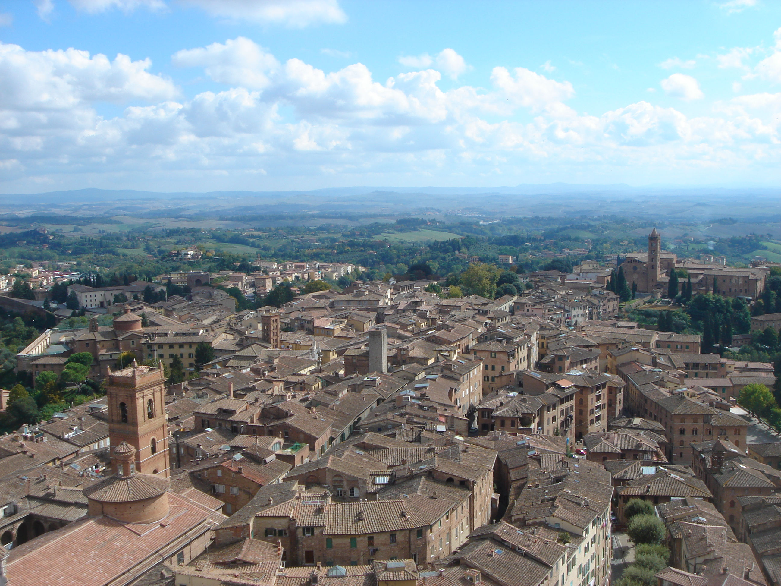 Siena panoramic view from Torre del Mangia.